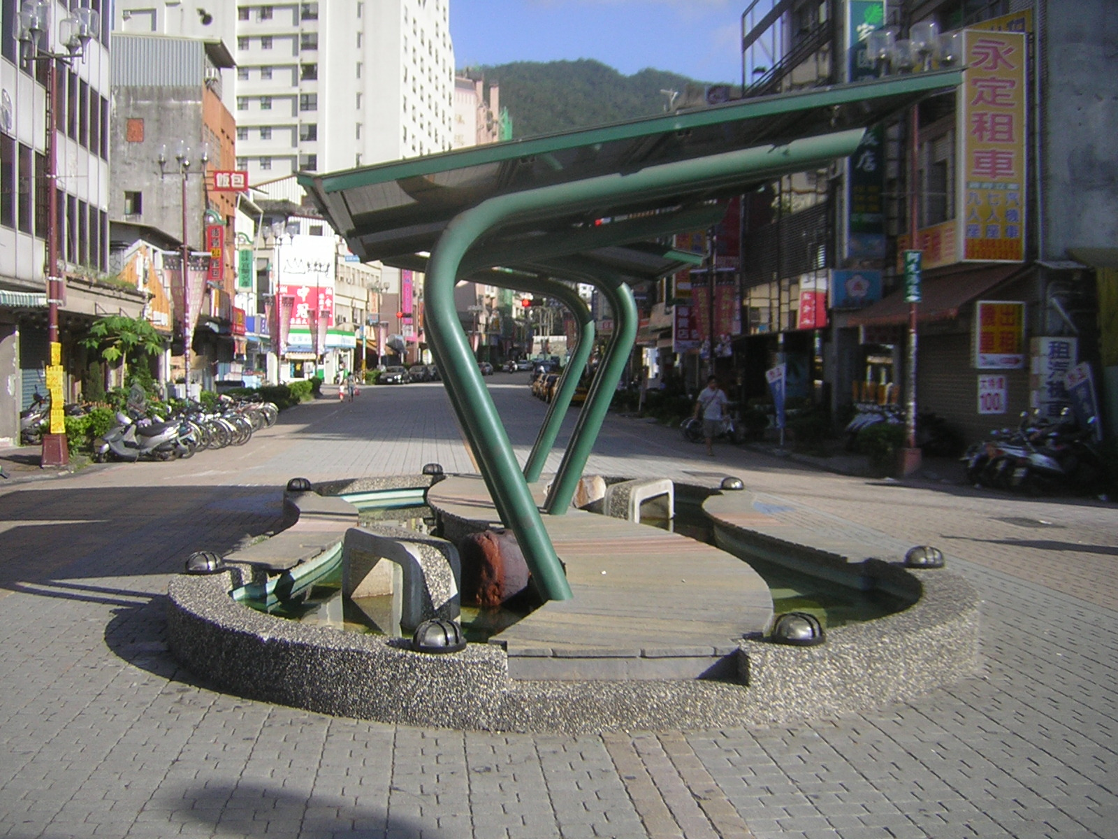 Feet hot spring just in front of Jiaosi Station of Taiwan Railway Administration.